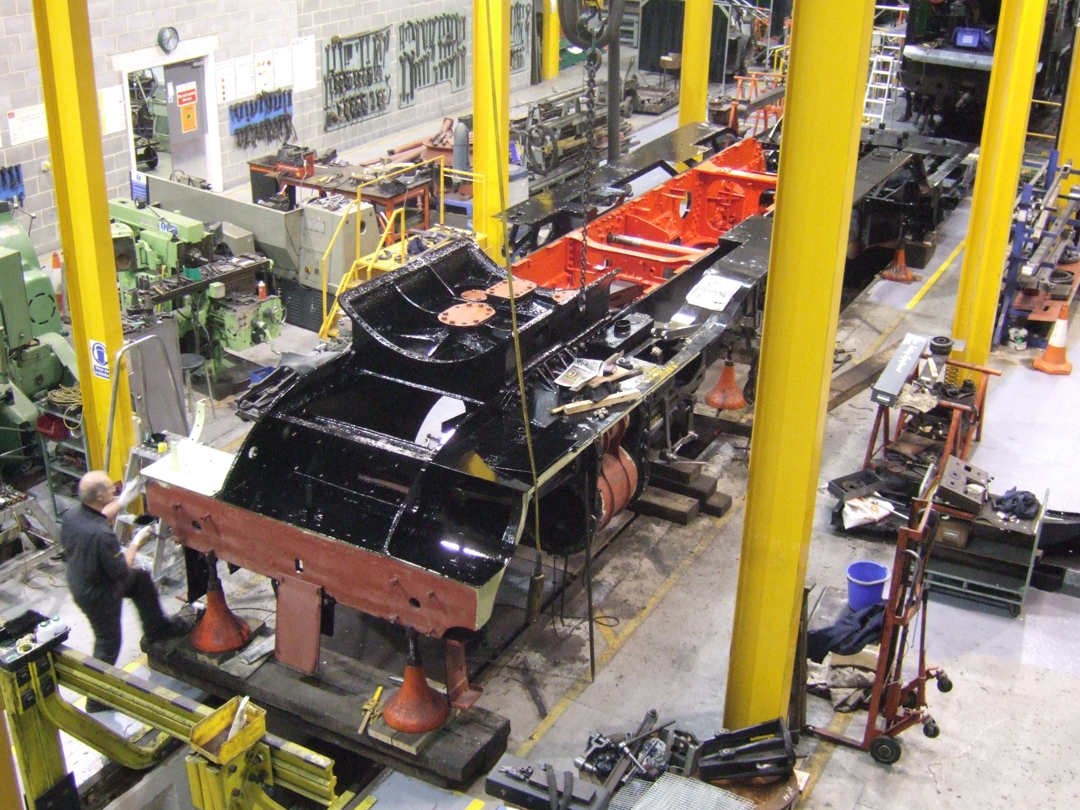 Flying Scotsman pictured 18/11/2007 in The NRM York, taken by me, see more at York Steam